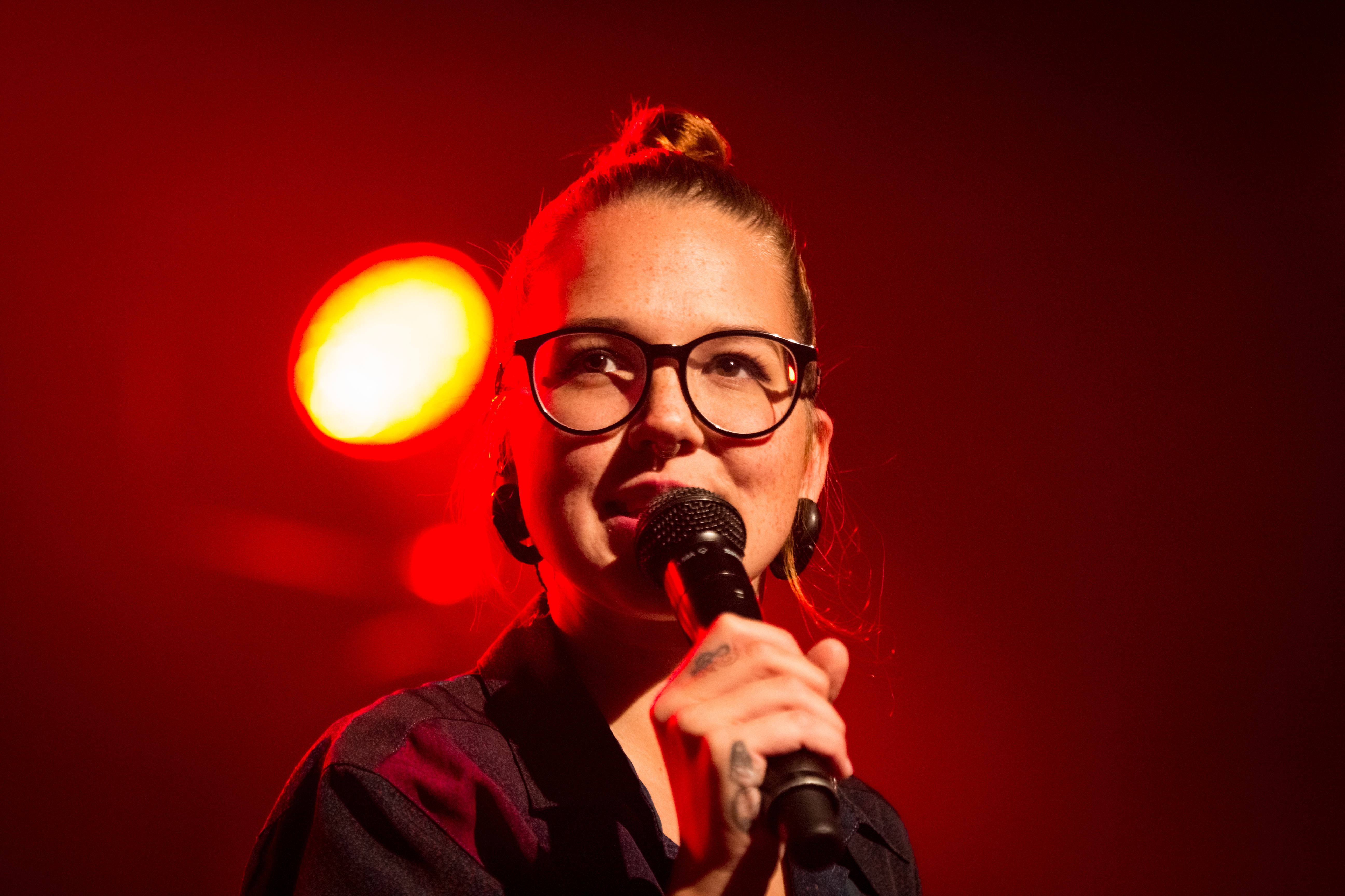 Stefanie Heinzmann - Leverkusener Jazztage 2106